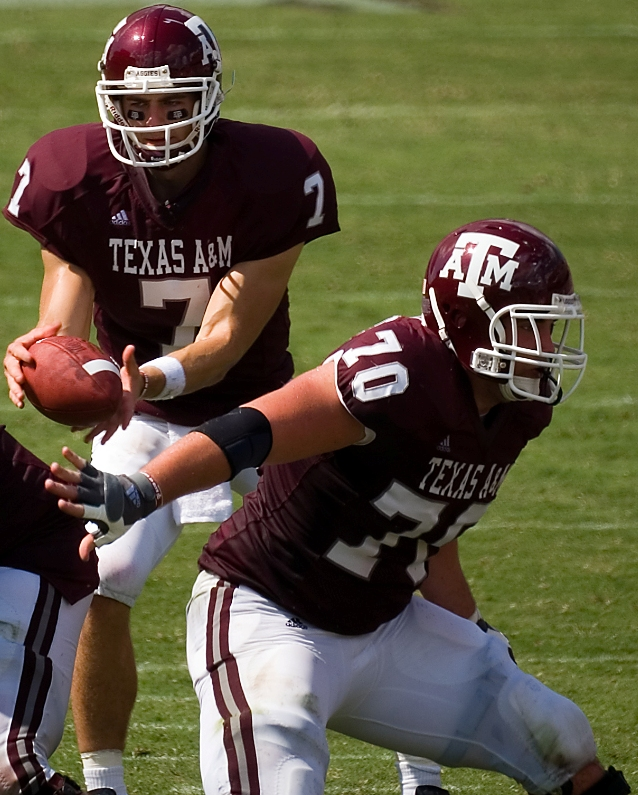 Texas A&M and Fresno State - September 8th, 2007 in College Station, Texas.